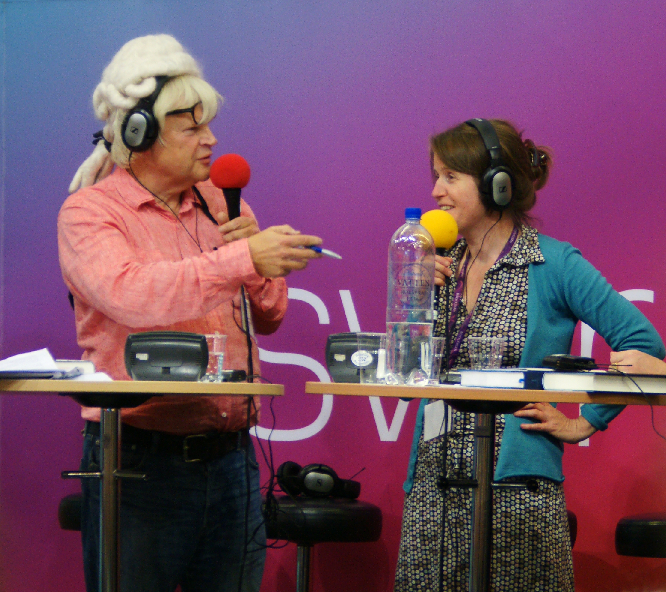 Swedish radio presenters Thomas Nordegren and Louise Epstein at Göteborg Book Fair 2016.